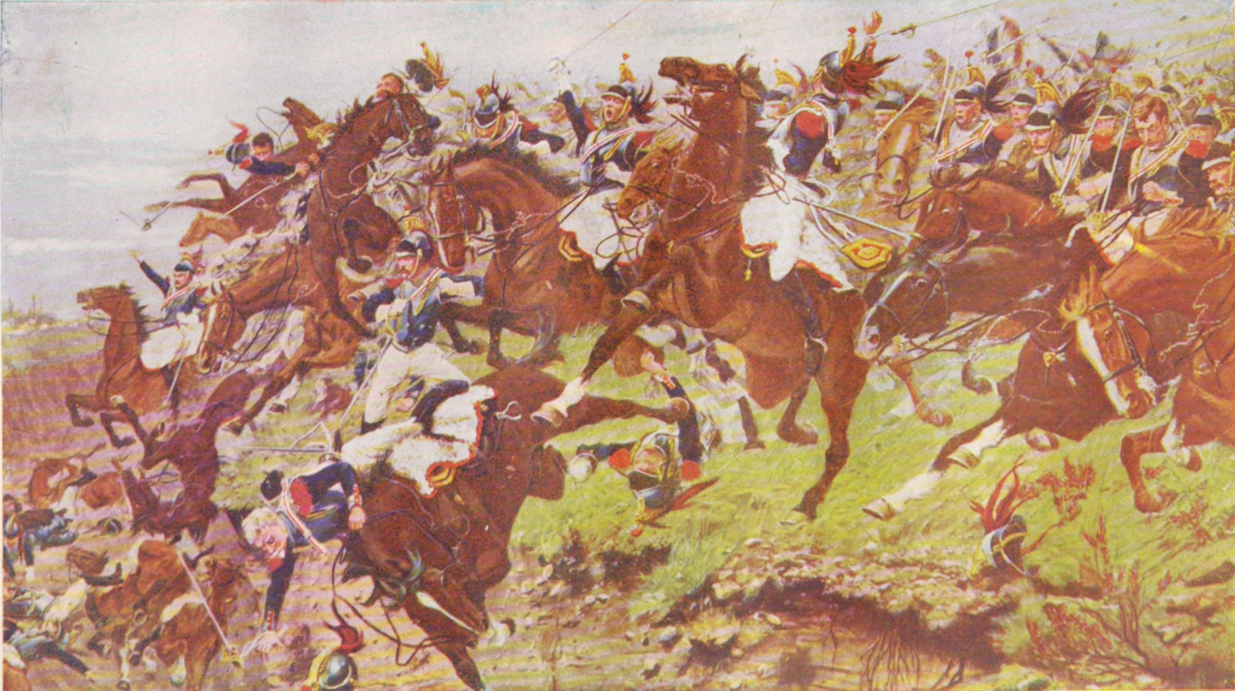 The Sunken Road at Waterloo, painting by Stanley Berkeley, from A History of the Nineteenth Century, Year by Year, Edwin Emerson, Jr., 1902.